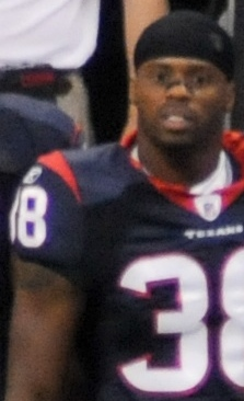 Mark Parson on the sidelines.